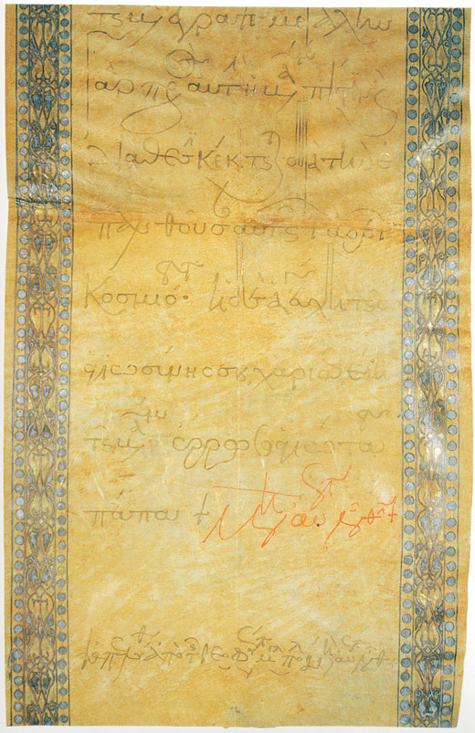 LETTER BY THE EMPEROR MANUEL I CONMENUS TO POPE EUGENE II ON THE ISSUE OF THE CRUSADES [Constantinople], 1146 August